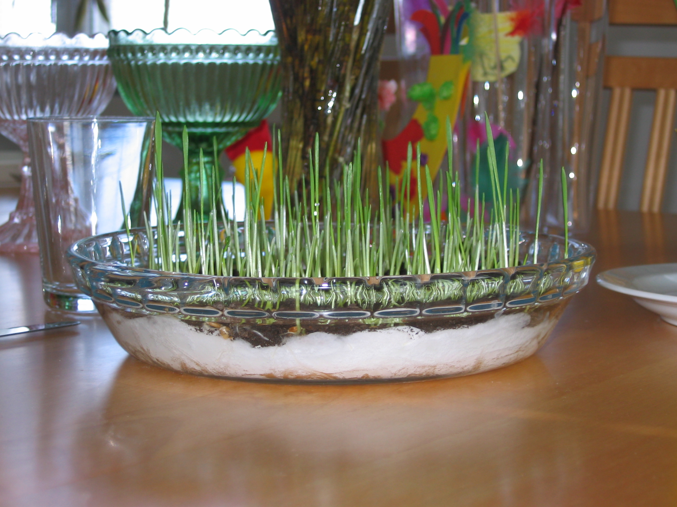 Rye-grass grown to celebrate Easter.